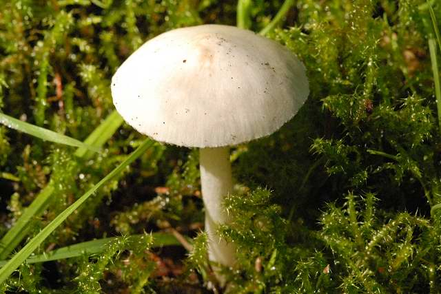 Cystolepiota seminuda from Commanster, Belgian High Ardennes .